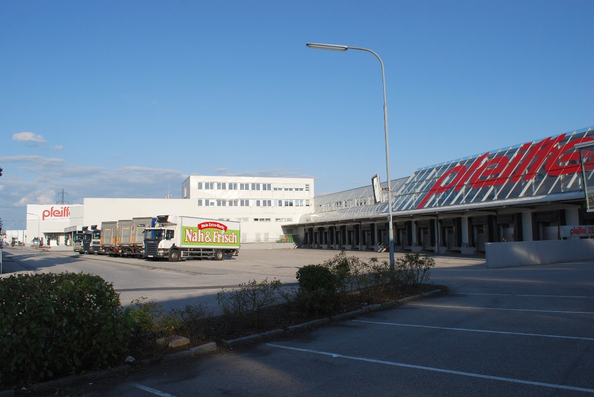 Headquarters of Company C+C Pfeiffer in Traun, Upper Austria, Austria Zentrale des Großhandelsunternehmens C+C Pfeiffer in Traun, Oberösterreich, Österreich